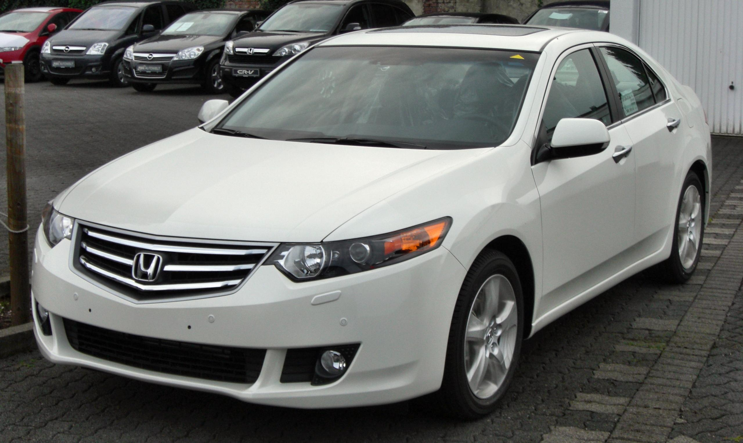 Honda Accord (2008)